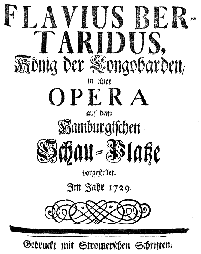 Georg Philipp Telemann - Flavius Bertaridus - titlepage of the libretto - Hamburg 1729